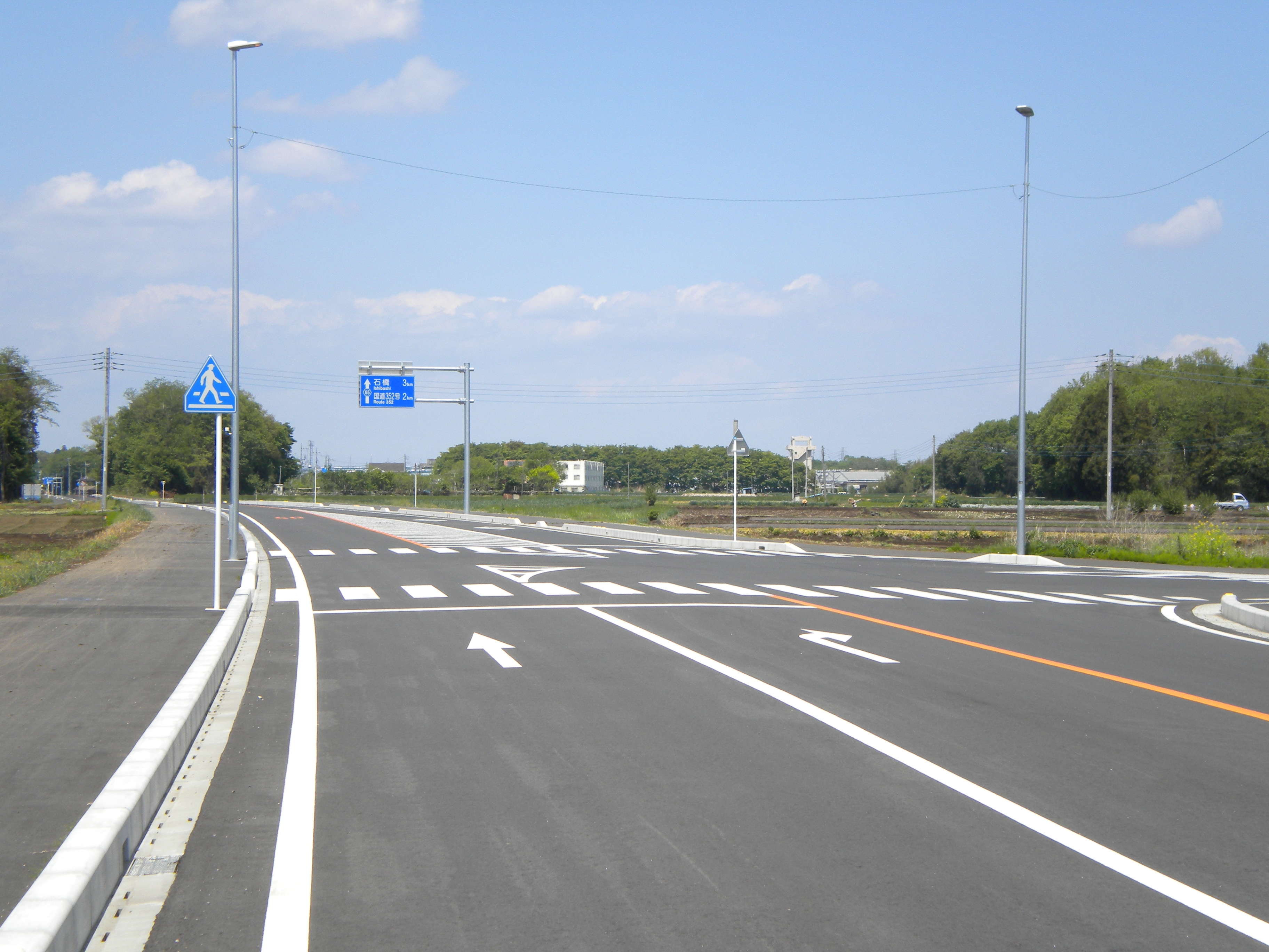 The Tochigi Prefectural Road Route 65 in Koganei, Shimotsuke City